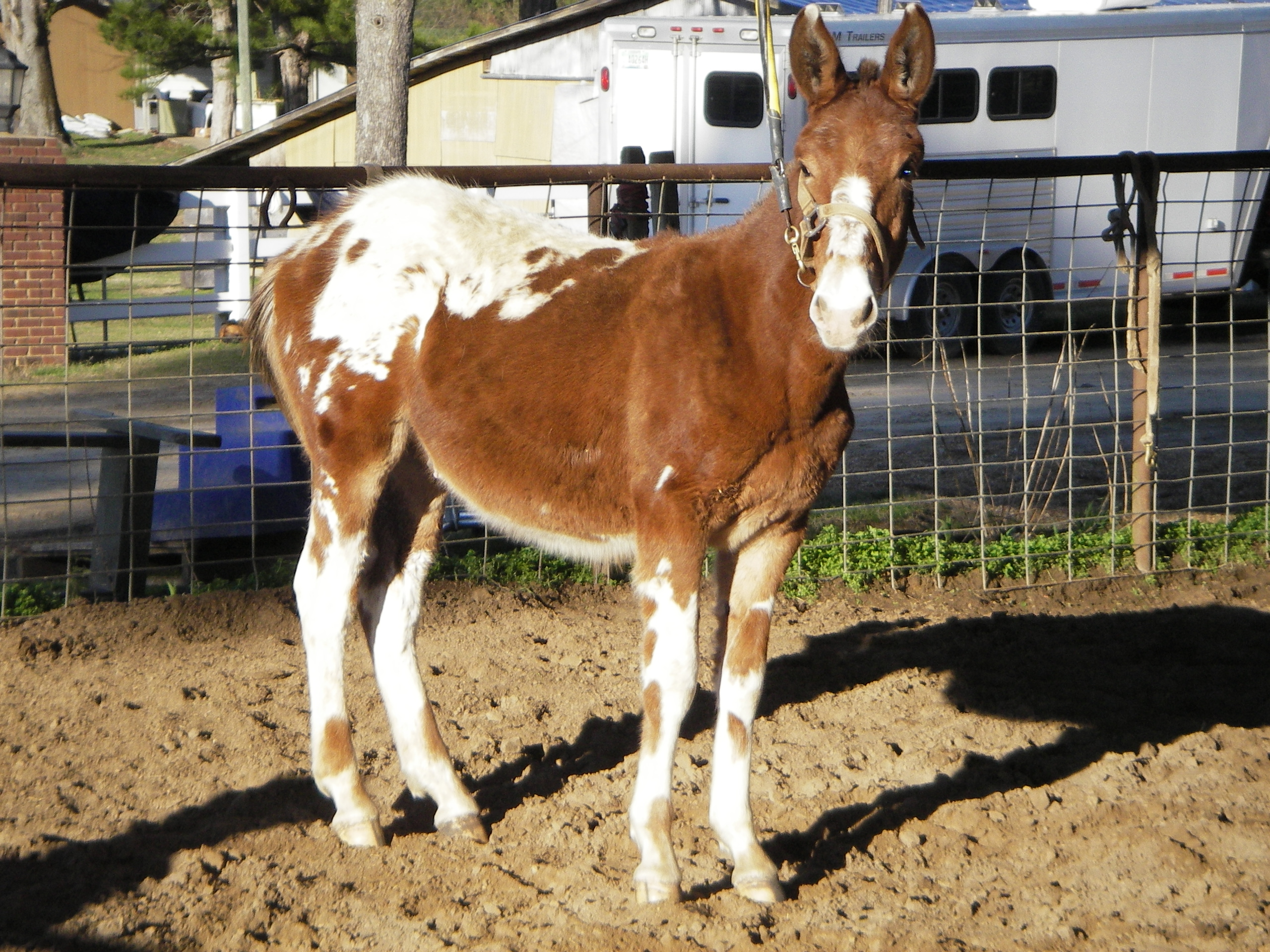 Yearling john mule "D.J.'s Showoff"; Sire: Magnolia Jackie 1992 National Champion Mammoth Jack Dam: Registered Appaloosa Mare